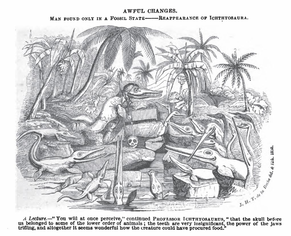 A well-known caricature by english geologist de la Beche, depicting the "Professor Ichthyosaurus" lecturing in front of other mesozoic marine reptiles.